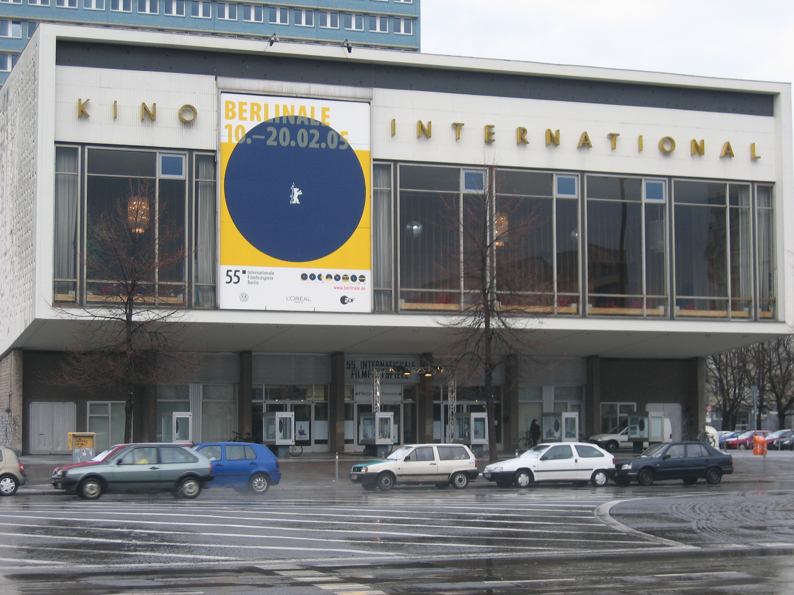 Berlin International Film Festival (Berlinale) 2005, Germany.